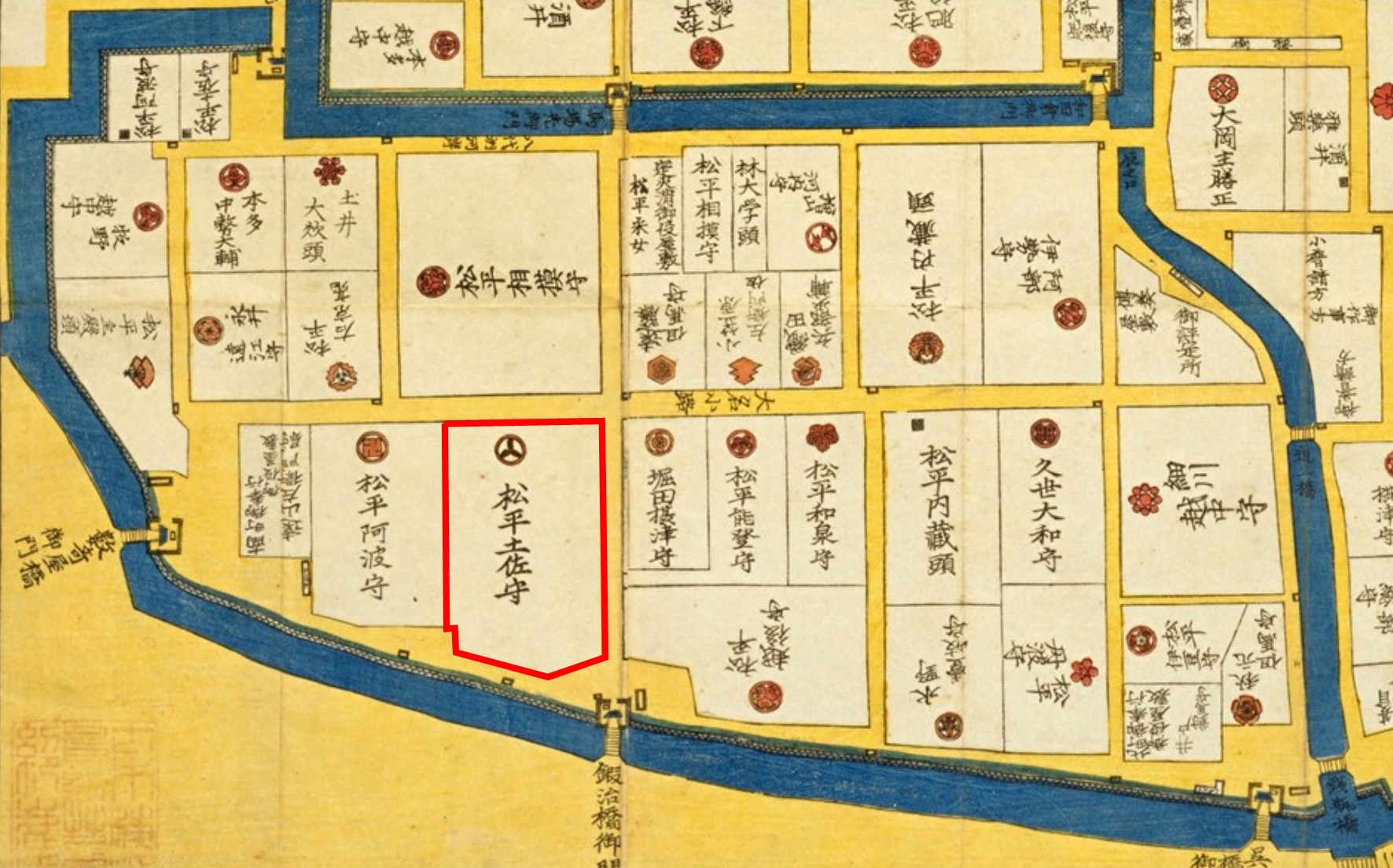 Residence Yamanouchi at Edo (Tokyo)